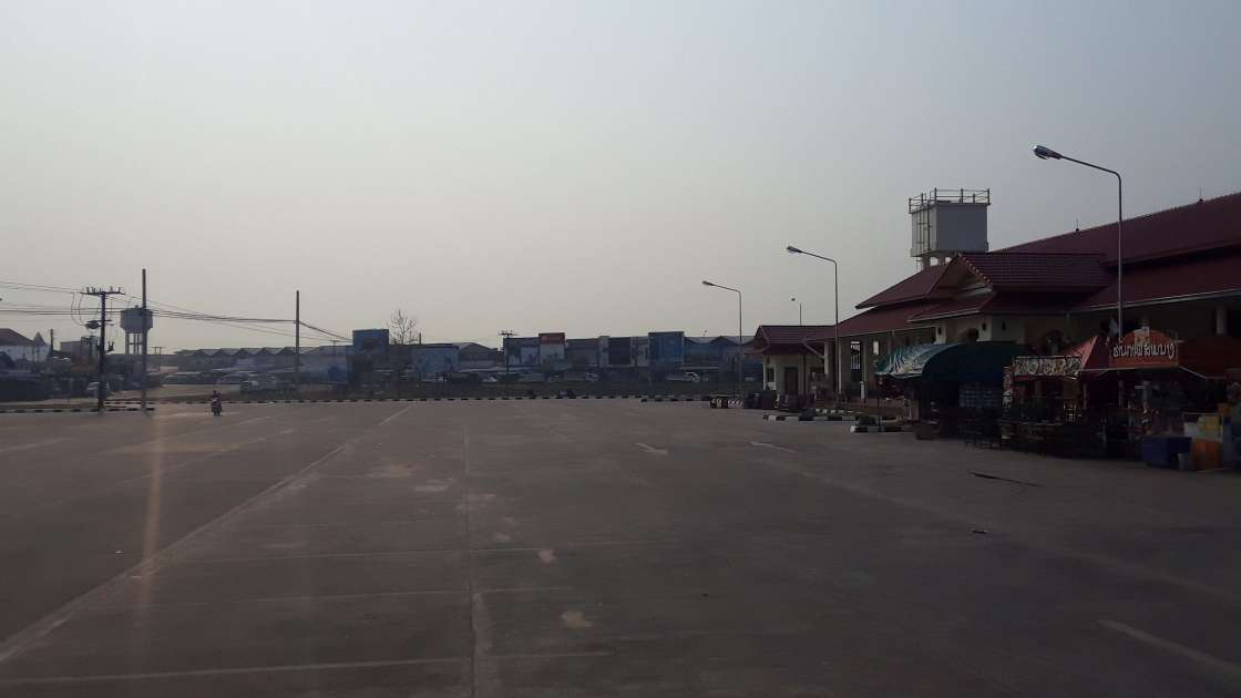 Outhoumphone District Skyline (Ban Xeno)